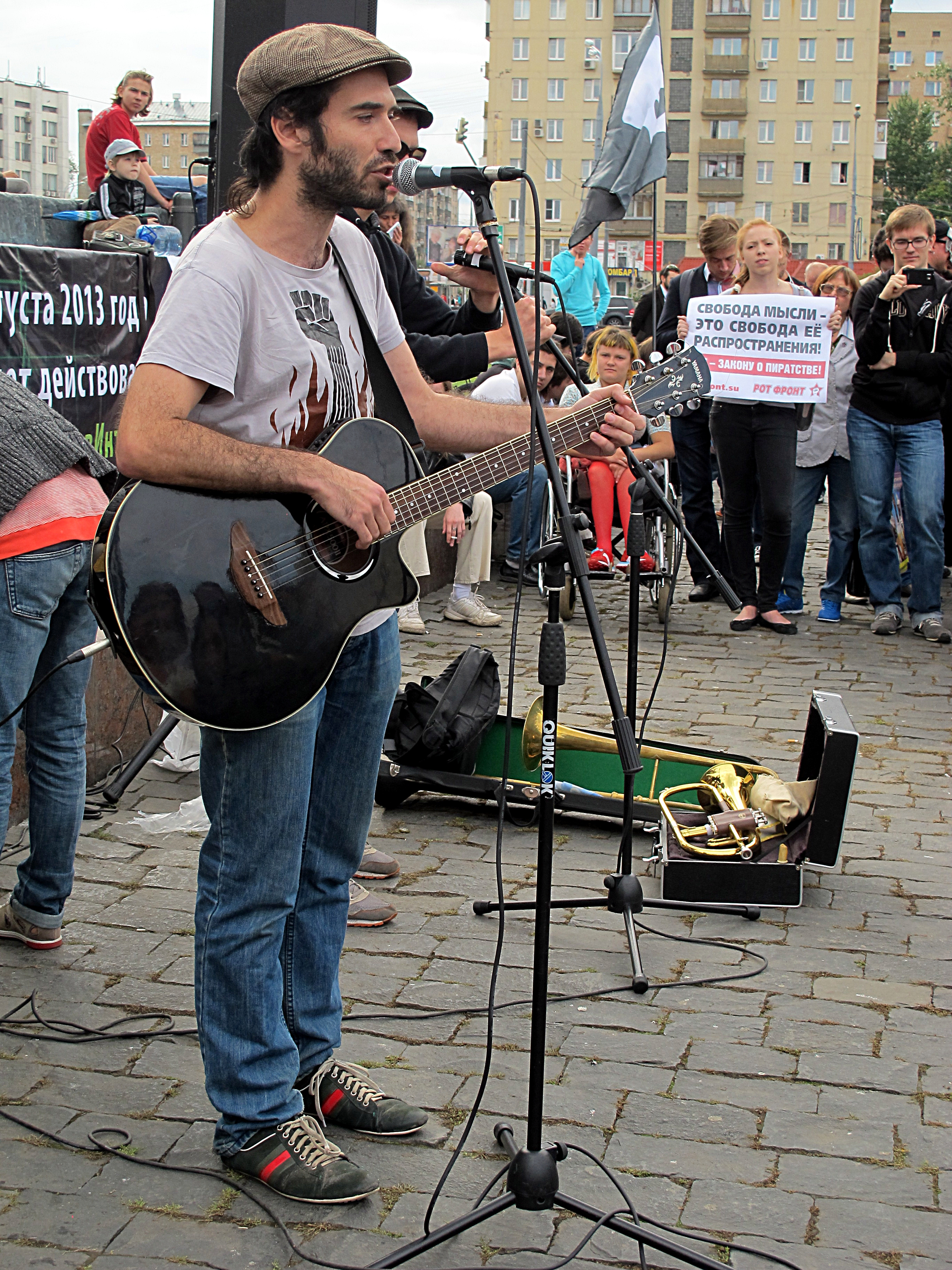 The rally-concert "For Free Internet" in Moscow July 28, 2013.